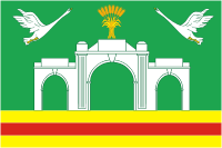 Kuban (Krasnodar krai), flag